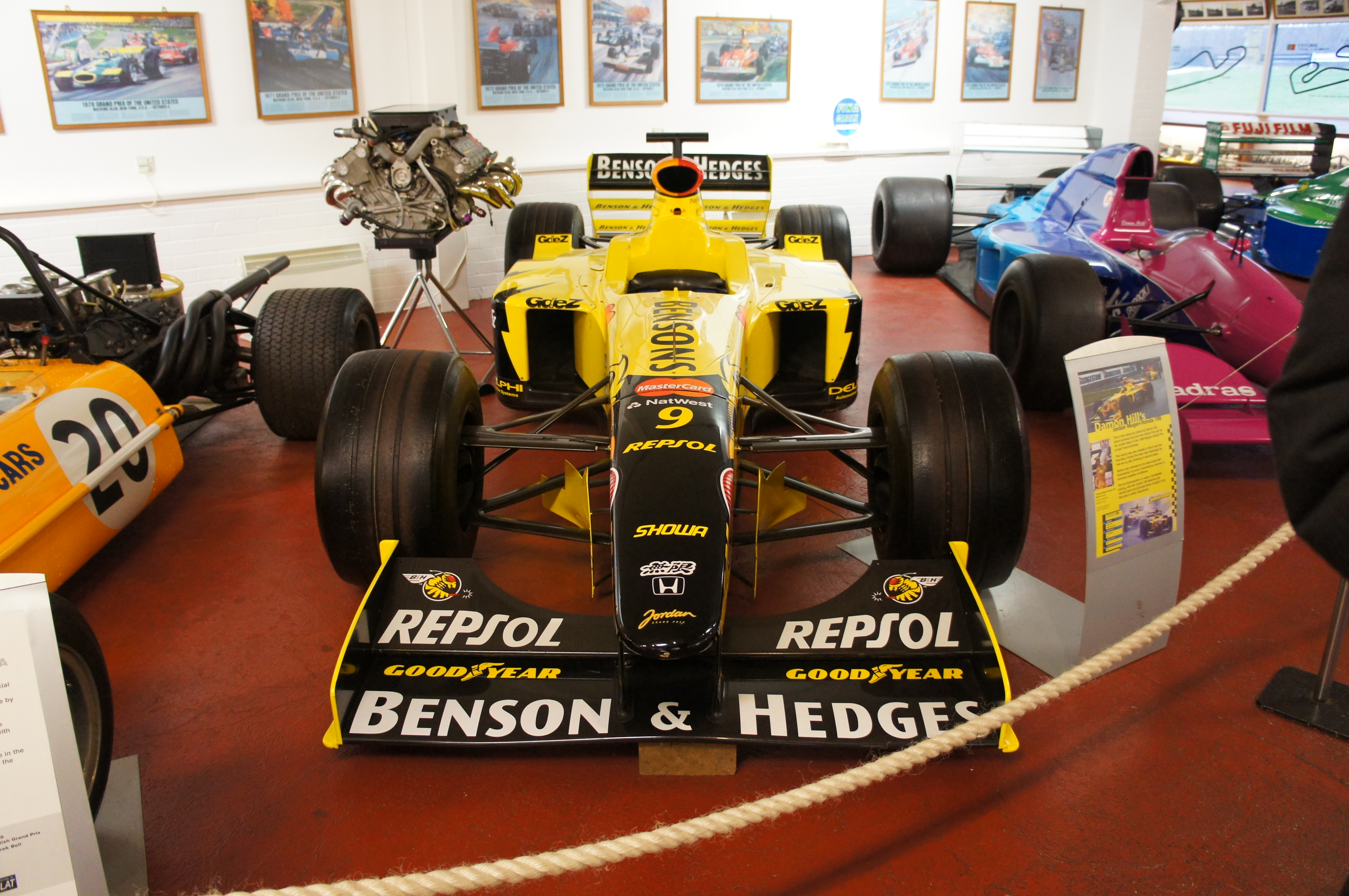 Jordan 198 at Donington Park.